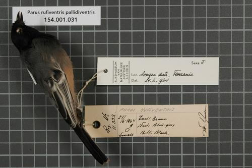 Parus rufiventris pallidiventris Reichenow, 1885